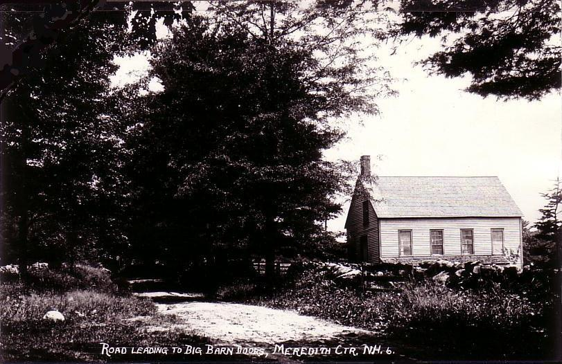 Road Leading to Big Barn Doors, Meredith Center, New Hampshire; from a c. 1912 postcard.